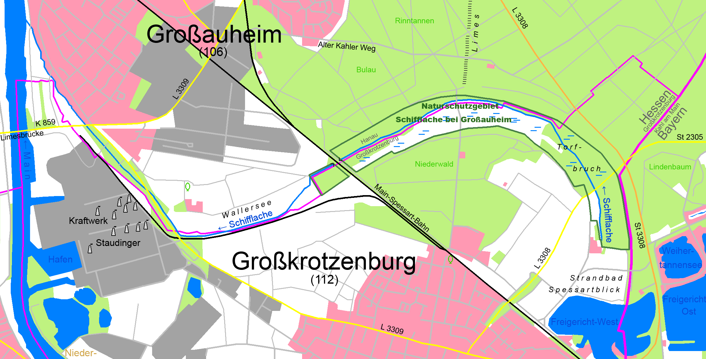 Map of Schifflache near Großauheim in Main-Kinzig-Kreis, Hesse Settlement area Industrial area Forest Grassland, Meadow Body of water Mire Fink Field name Railway Border of nature reserve federal highway Main street Agricultural road and Forest road Natural monument